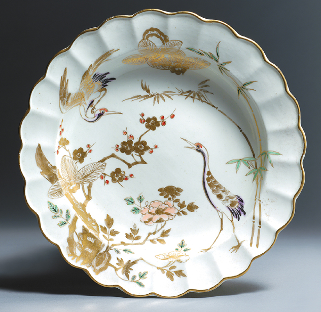 Dr. Wall Worcester Dessert Plate in the Japanese Arita style - 21cm diameter